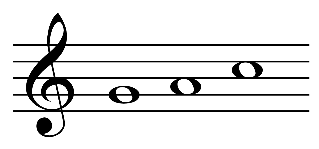 Cross motif. Created by Hyacinth (talk) using Sibelius 5.